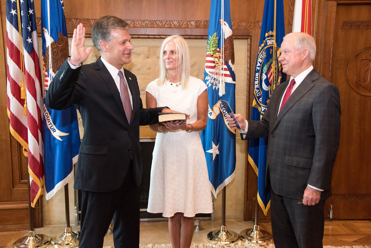 Attorney General Sessions on the Swearing in of FBI Director Chris Wray